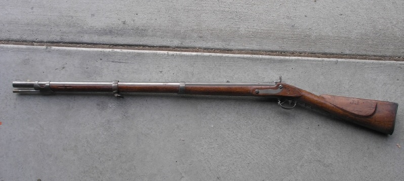 The back side of a R. Johnson made US Model 1814 rifle.